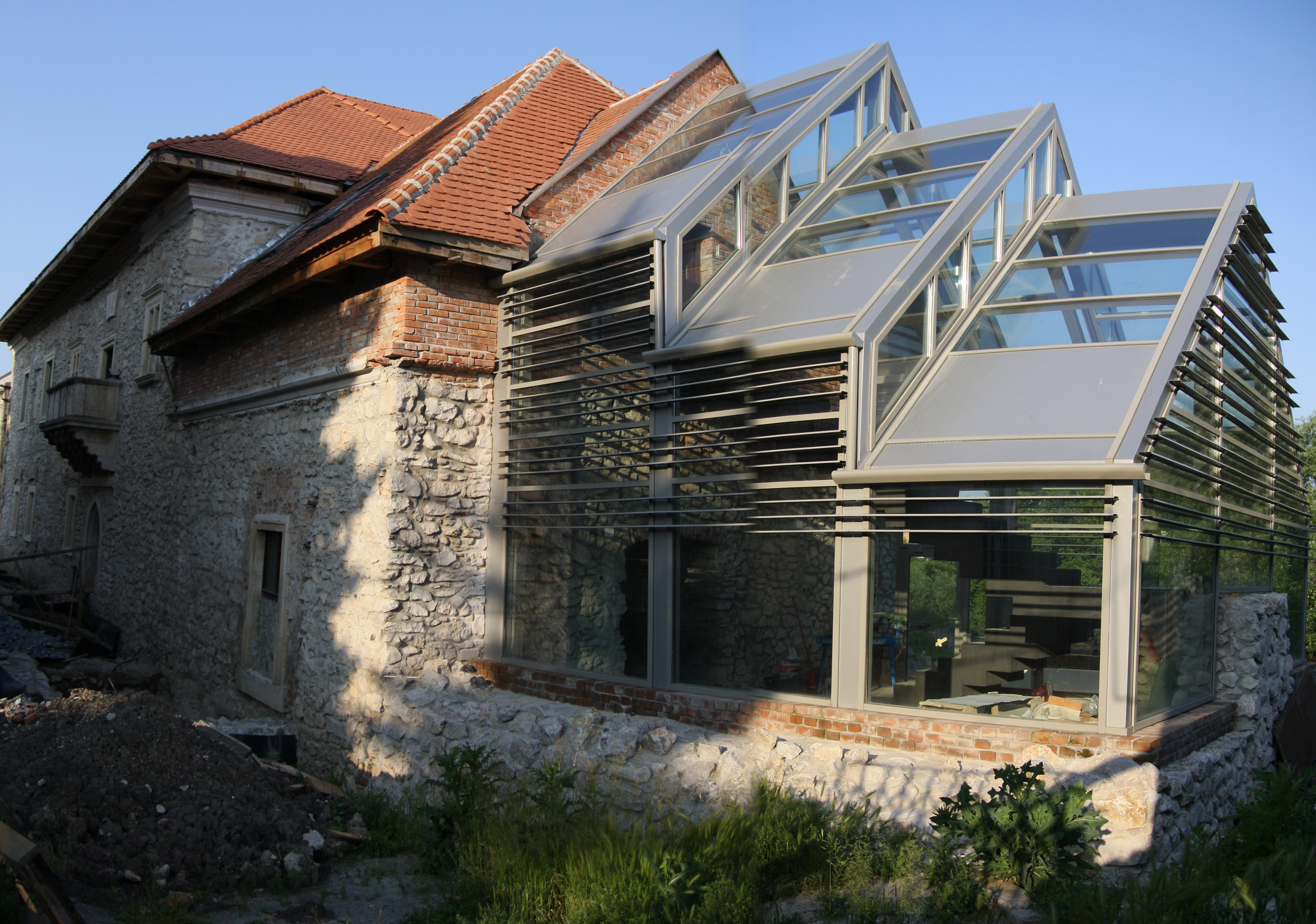 Turda Museum june 2008 still in reconstruction